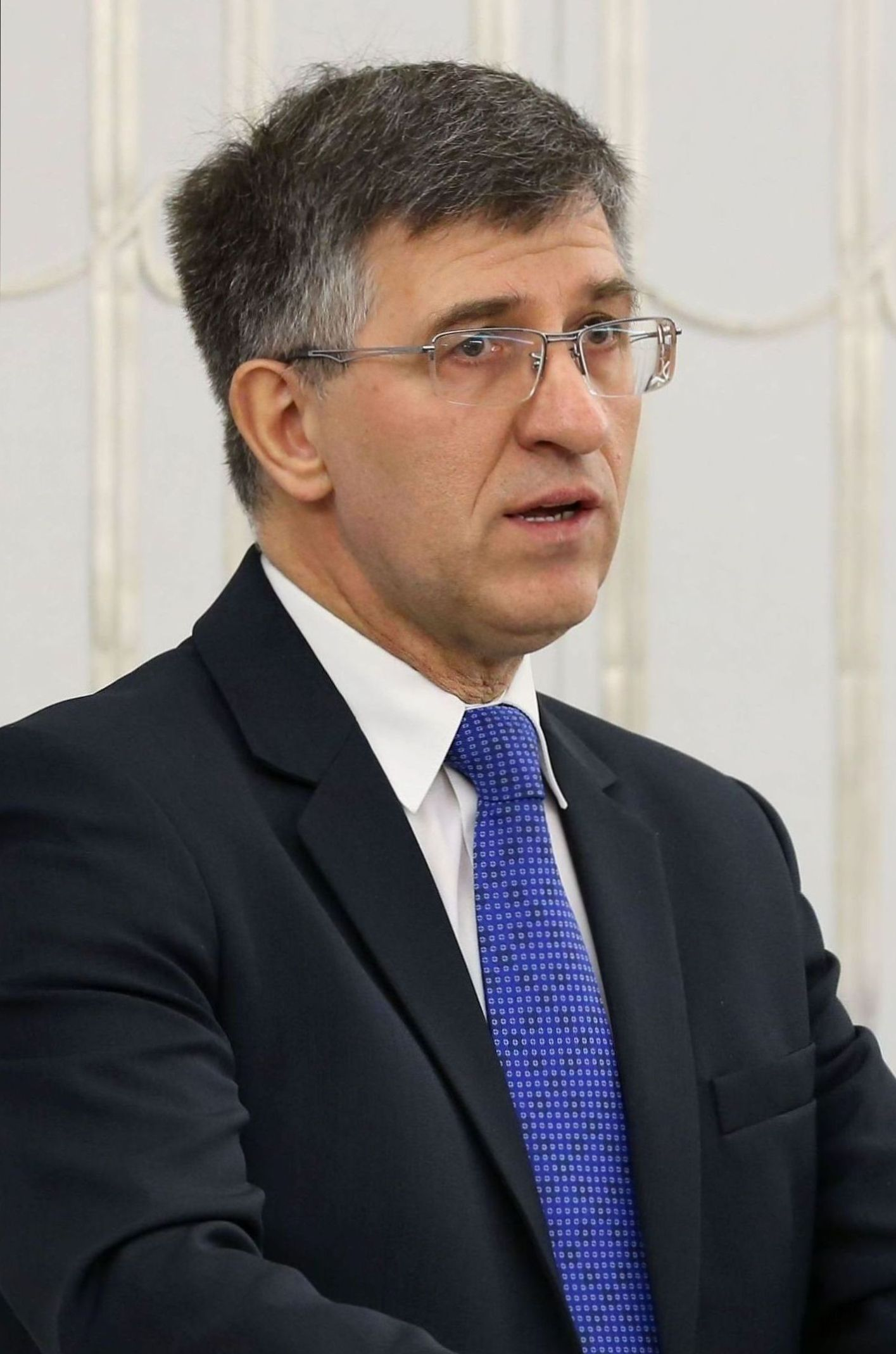 President of the Social Insurance Institution (ZUS) Zbigniew Derdziuk during 62nd sitting of the Polish Senate